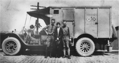 SCR-108 radio truck, White Motor Co. 1 1/2 ton